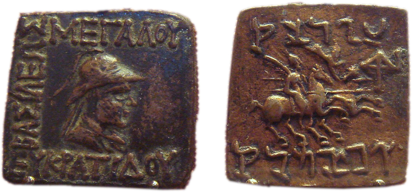 Greco-Bactrian Kingdom, Bilingual Coin depicting Eucratides I (reigned c. 171-145 BC)